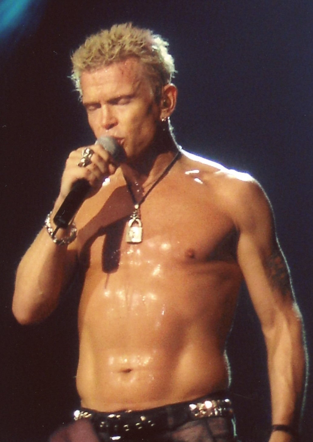 Billy Idol. Brixton Academy, London.